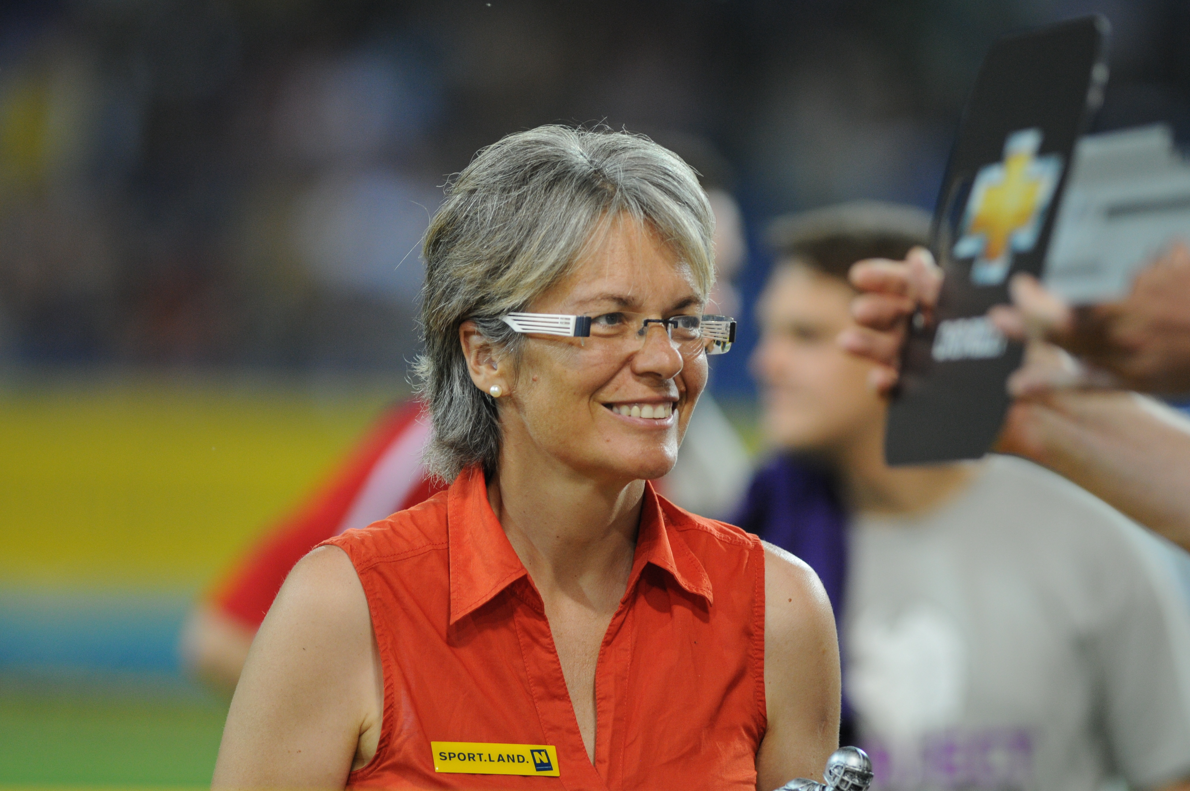 Petra Bohuslav at Austrian Bowl XXIX at NV Arena in St. Pölten